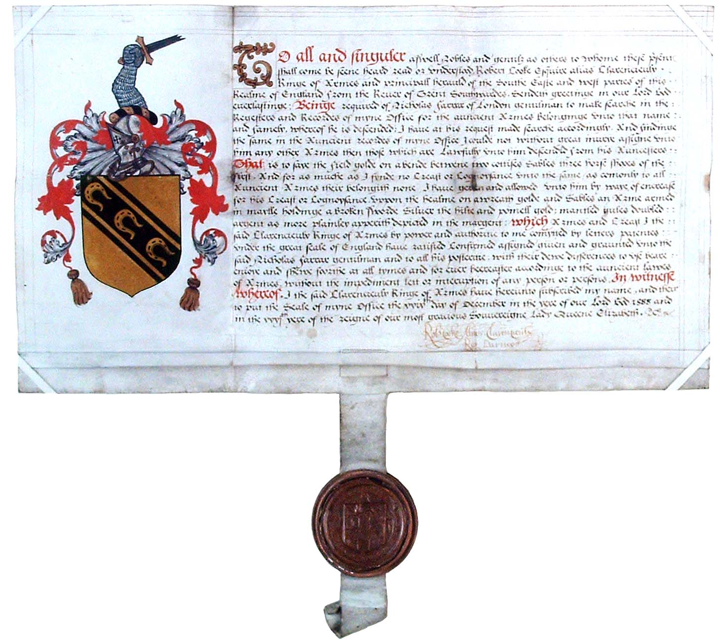 Letters Patent from Robert Cook, Clarenceux King of Arms, granting a coat of arms to Nicholas Ferrar, 29 December 1588. Nicholas Ferrar was the father of Nicholas Ferrar of Little Gidding.